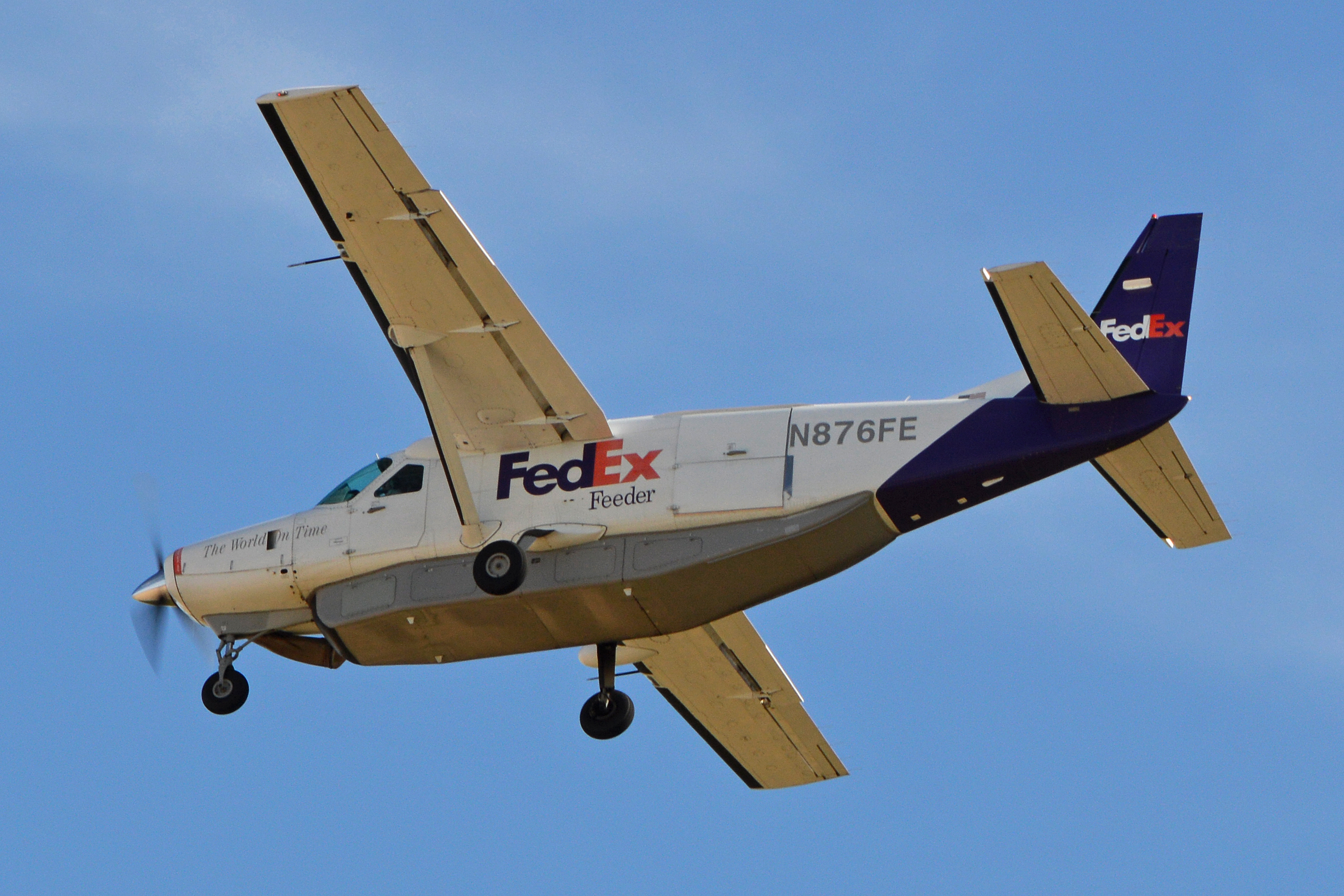 c/n 208B-0207. Seen on approach to Yuma MCAS. Arizona, USA. 12-2-2014